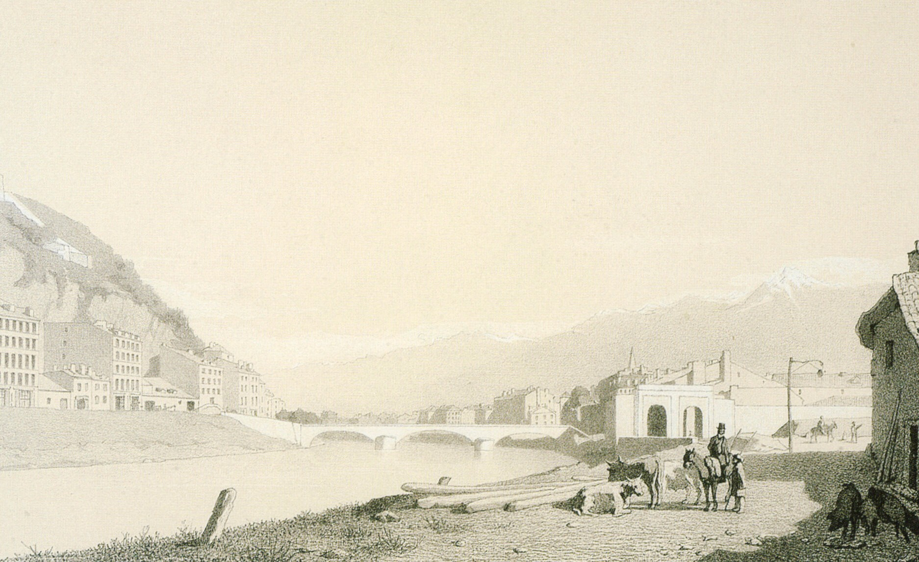 Grenoble, view from left bank, location of public abattoir (now Place Hubert-Dubedout), with the new Porte Créqui and the bridge called Hospital bridge (now Pont Marius-Gontard)